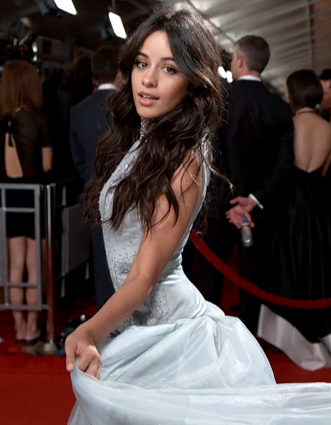 Camila Cabello at 2017 Grammy Awards Red Carpet